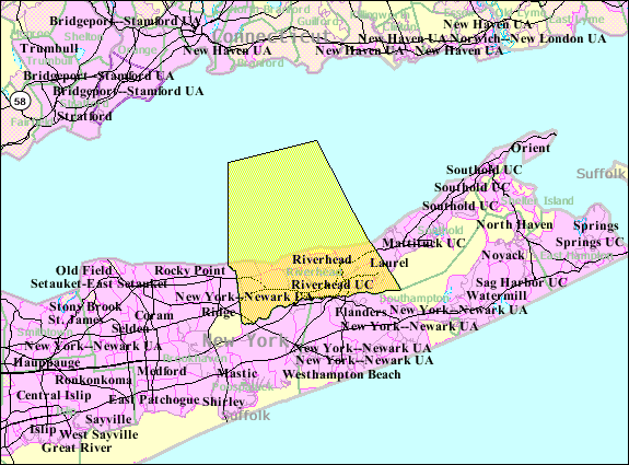 U.S. Census 2000 reference map for Riverhead